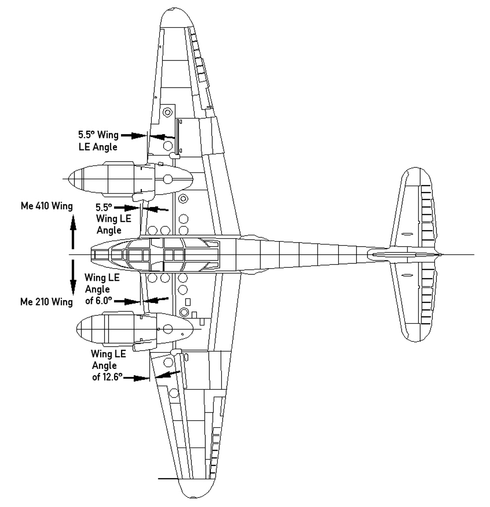 Basic side-by-side comparison of the Me 210 and Me 410 wing planforms, showing the differences between the earlier Me 210 planform that caused serious stability problems, and the Me 410's revised wing planform that proved successful.